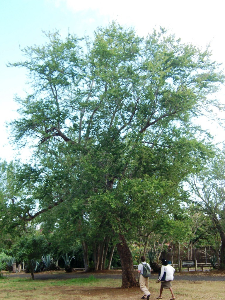 habit